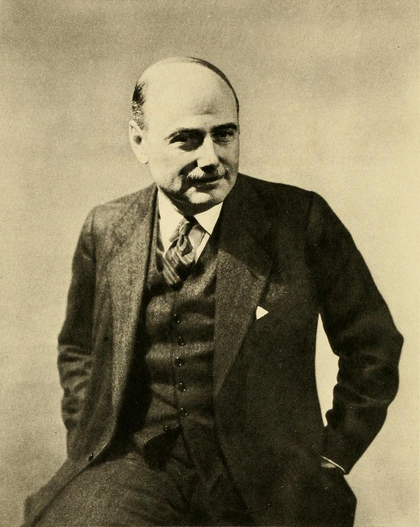 Sam A. Lewisohn